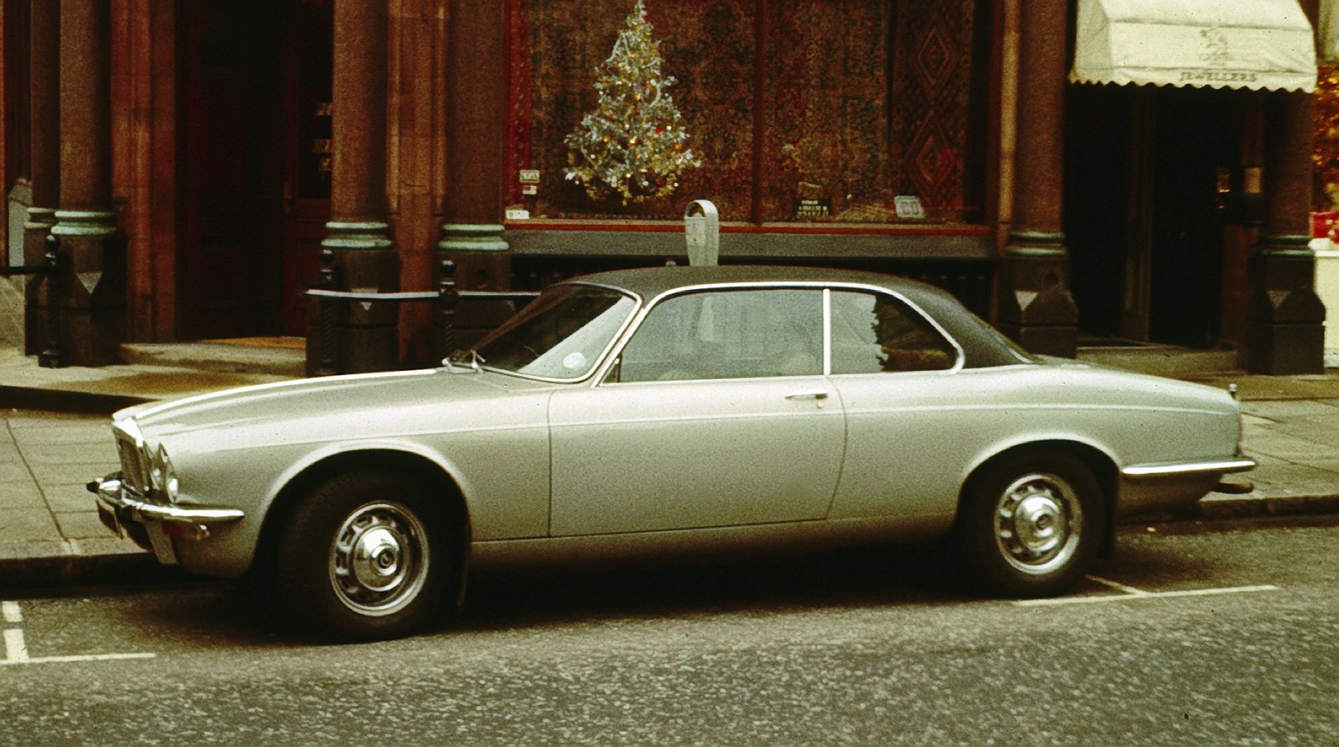 Daimler Sovereign (pillarless coupe, version of Series 2 XJ6) in London near Earl's Court